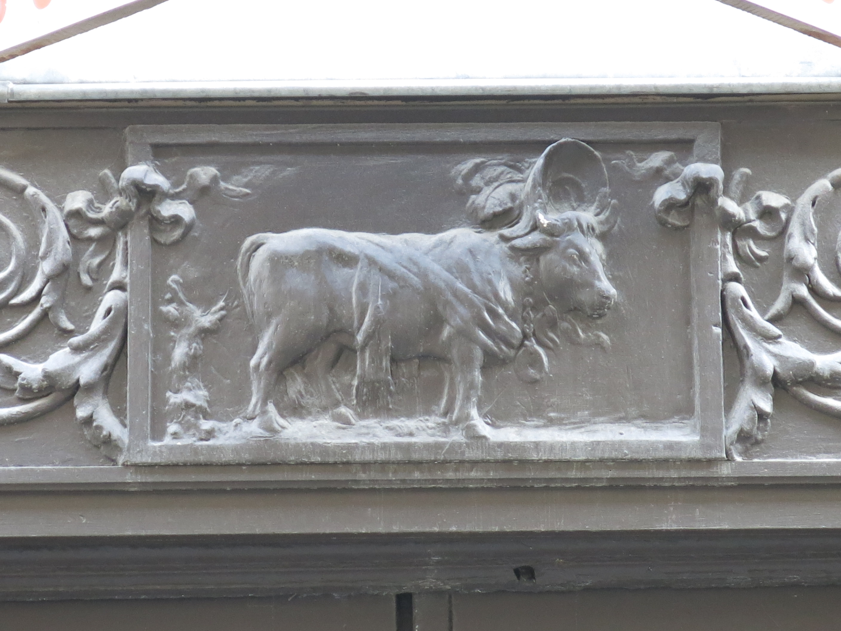 Enseign of the Boeuf à la mode which was a former restaurant at the 8 rue de Valois, Paris 1st arrond. This is a French joke, because Boeuf à la mode is a French recipe of beef with carrots and wine. But Boeuf à la mode means also fashioned beef as represented on the relief.